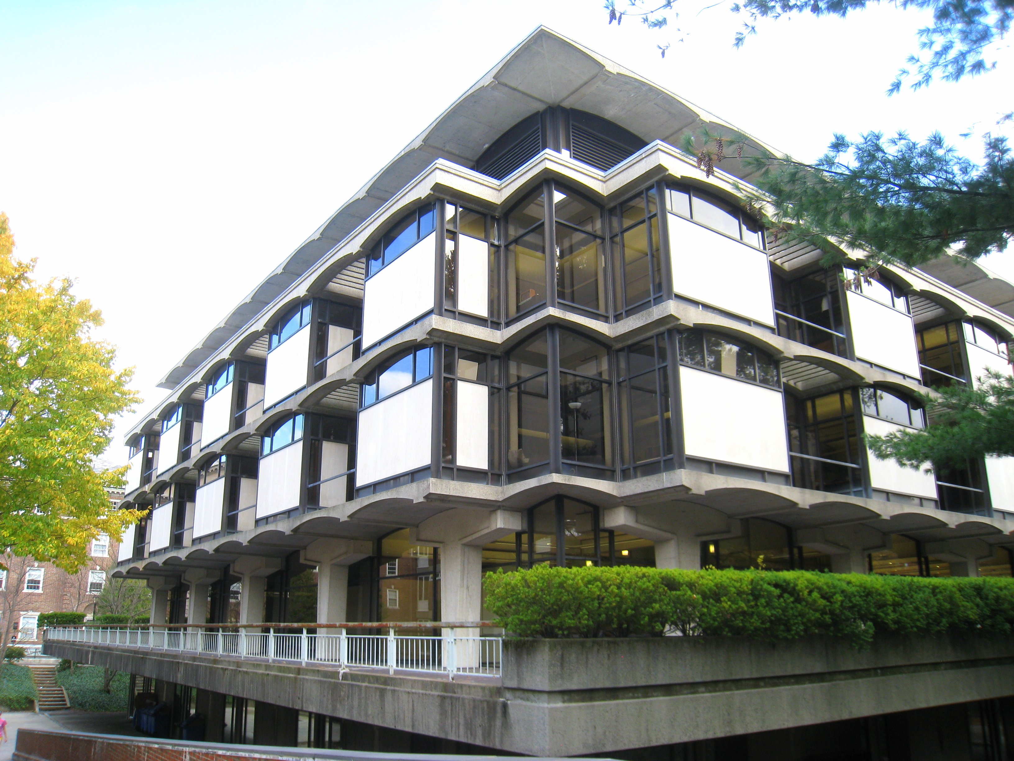 Hilles Library, Radcliffe Quadrangle, Harvard University, Cambridge, Massachusetts, USA. Seen in Love Story (1970, film).